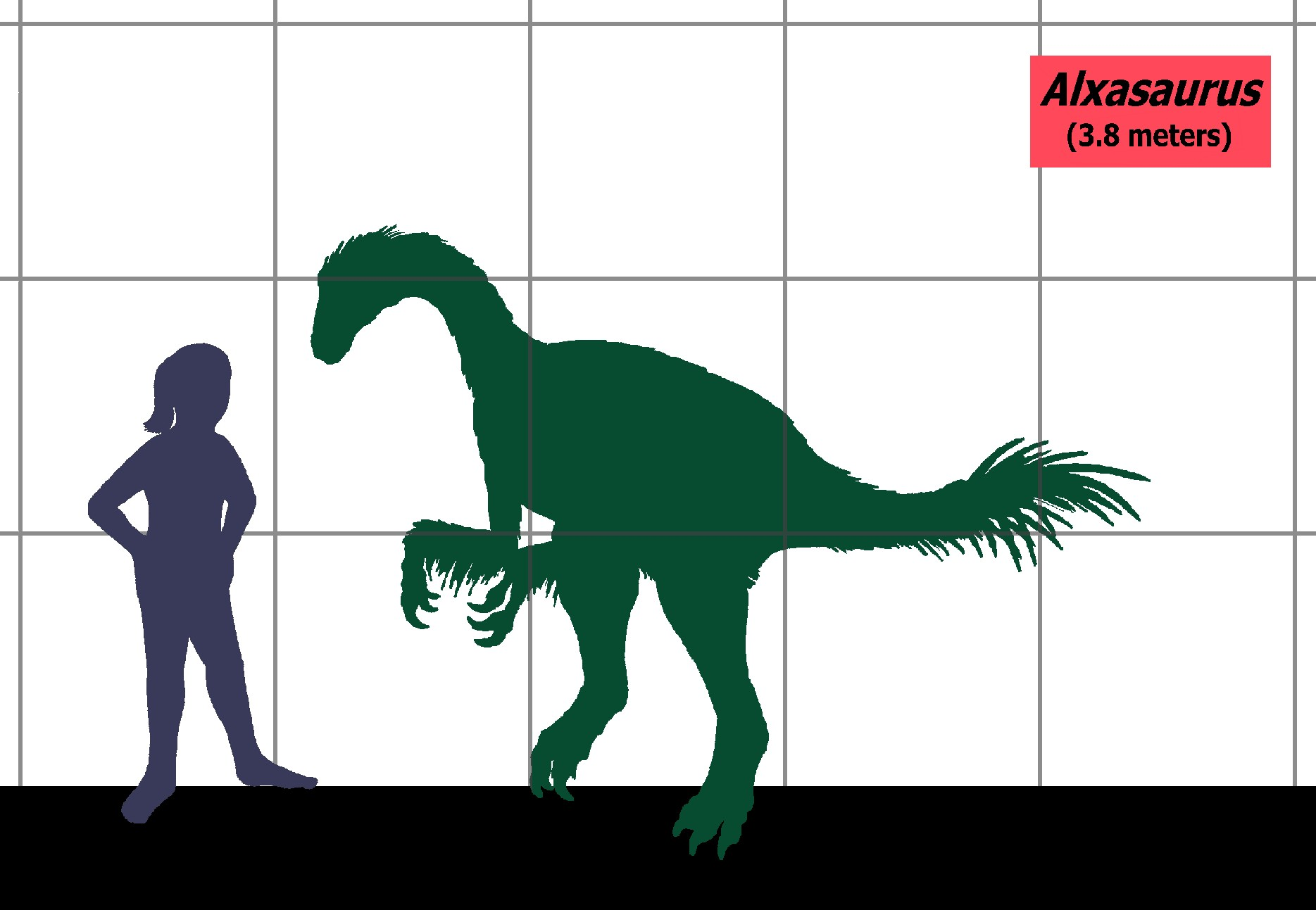 Size comparison between the theropod dinosaur Alxasaurus and a human.